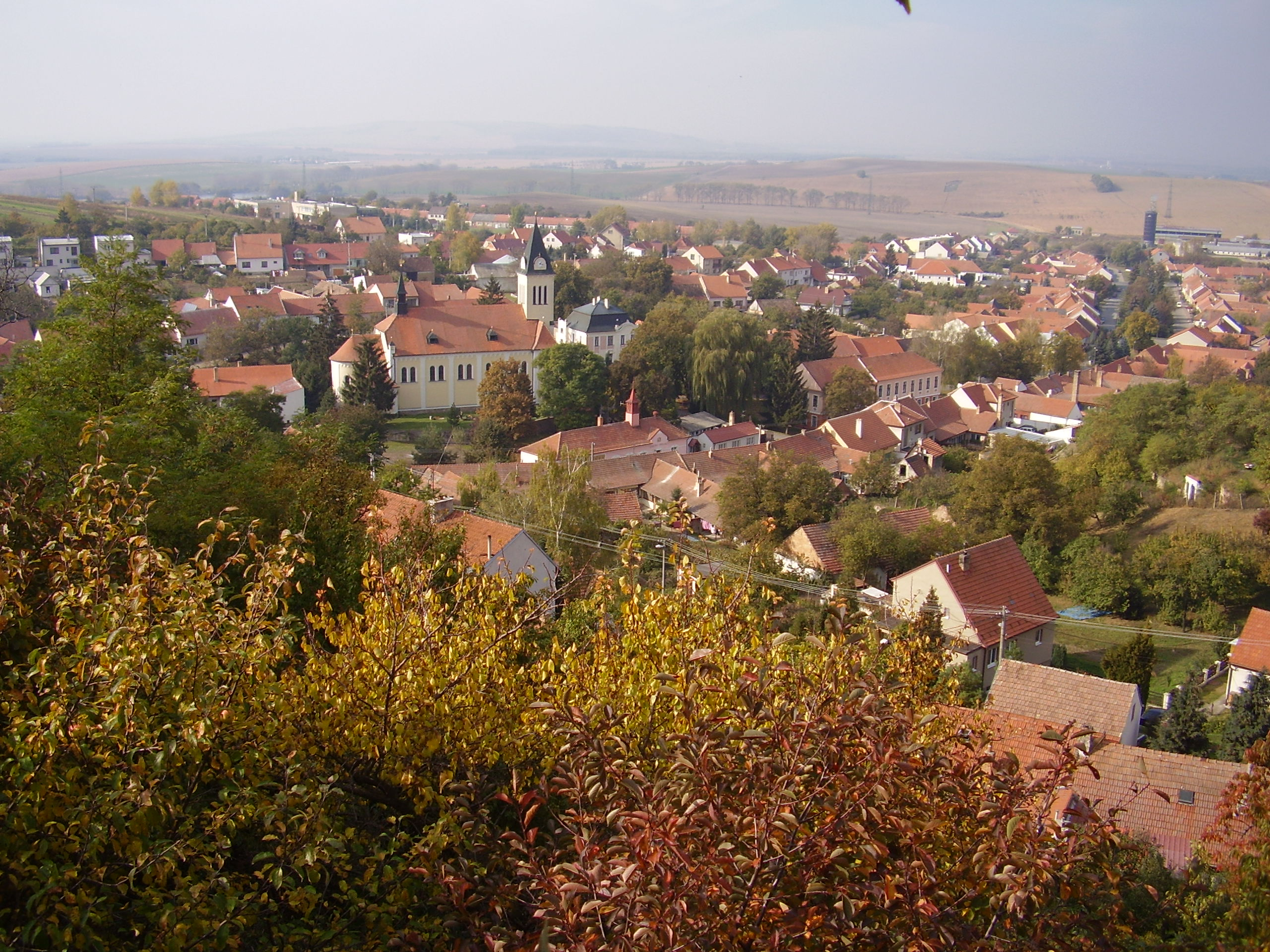 Šitbořice.